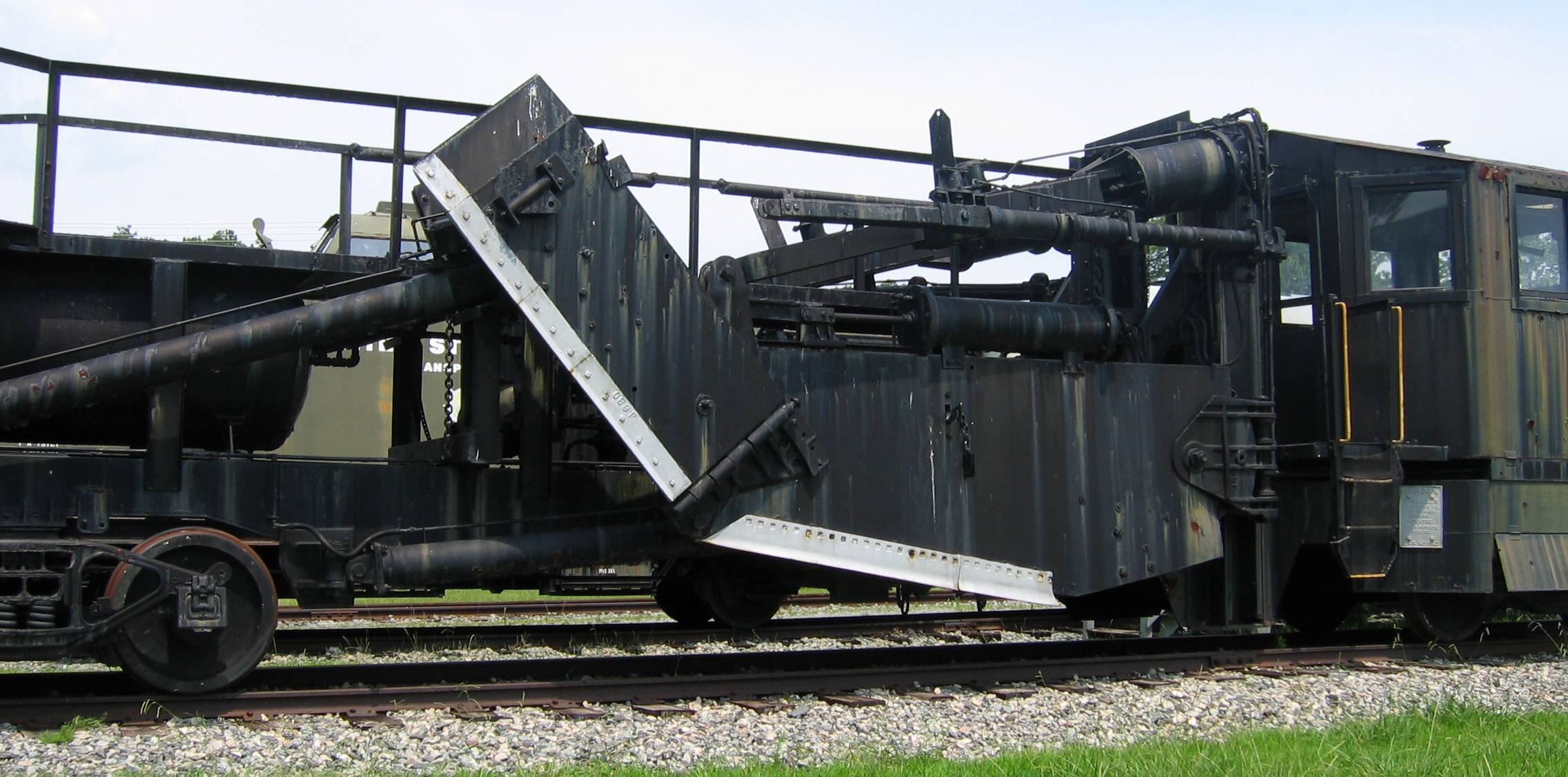 I took this photo and release it to the public domain.